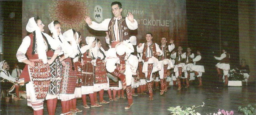 Macedonian folk dance "Pottrchano" from Skopje region